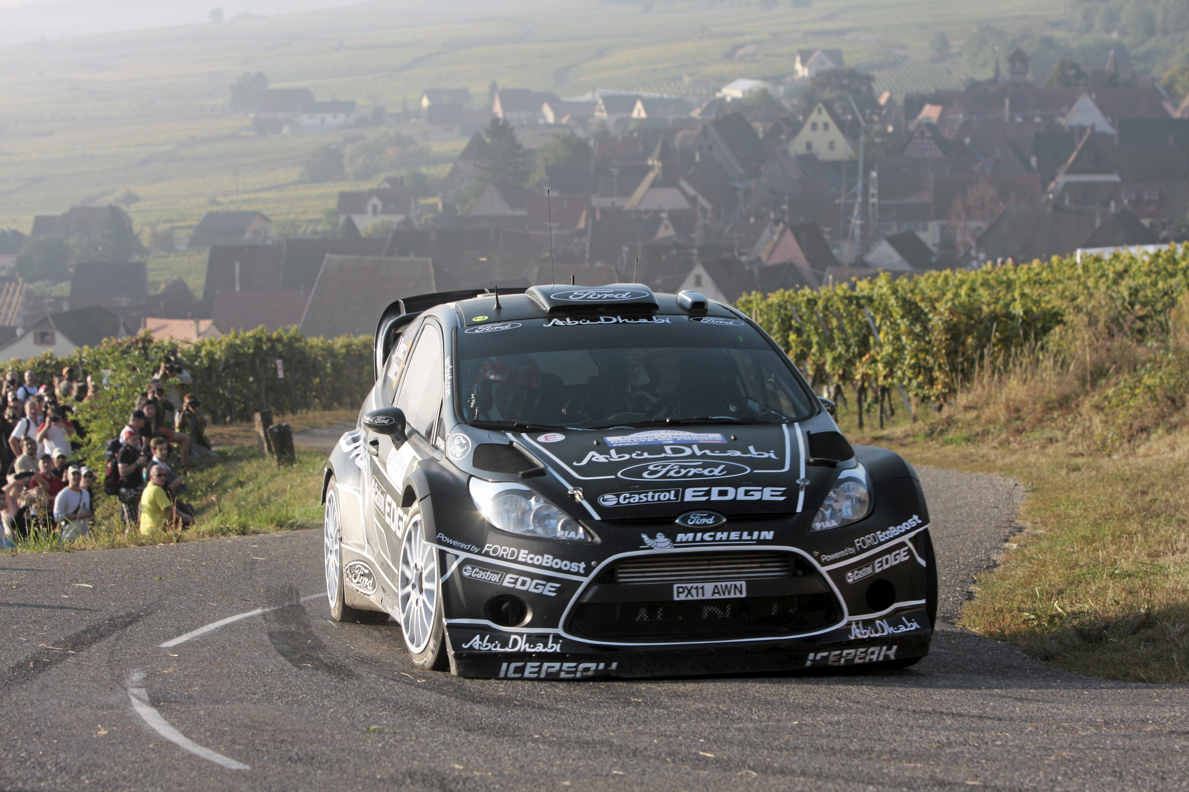 Mikko Hirvonen and co-driver Jarmo Lehtinen in their Ford Fiesta RS WRC at the 2011 Rallye de France Alsace.